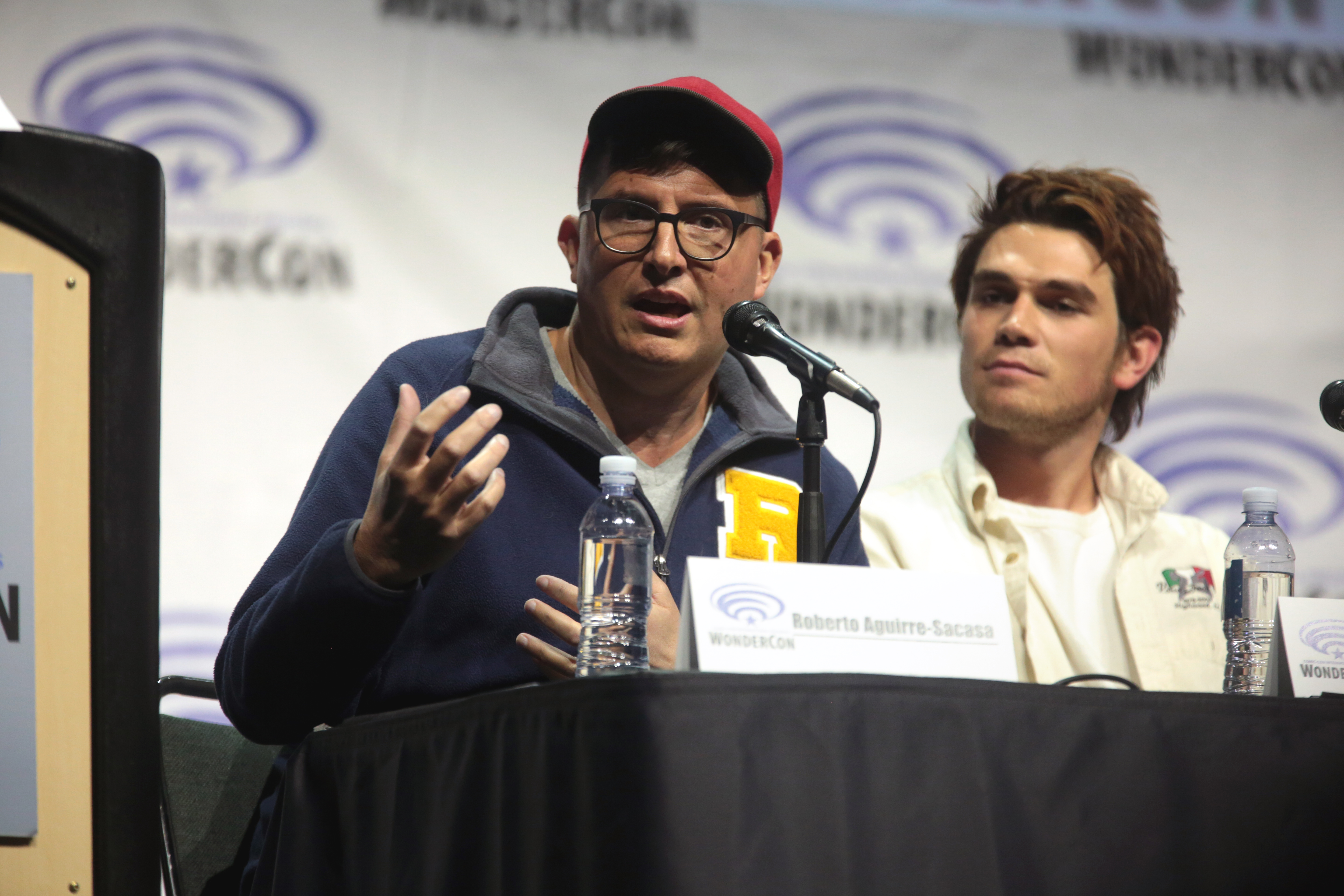 Roberto Aguirre-Sacasa and KJ Apa speaking at the 2017 WonderCon, for "Riverdale", at the Anaheim Convention Center in Anaheim, California.